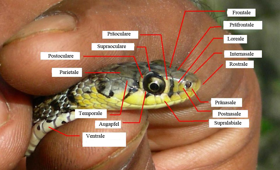 Scales on a snake's head. (Photo 1). Original photo is of Buff-striped Keelback Amphiesma stolata Family Colubridae, Serpentes.